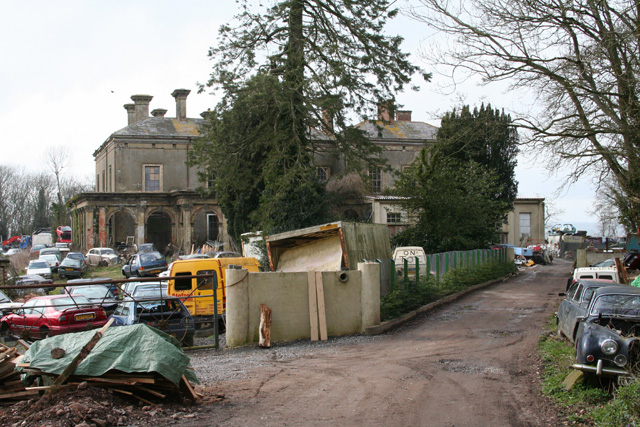 Kentisbeare: Blackborough House. This mansion has seen better days. It was built in the Italianate style for the fourth and last Earl of Egremont, a member of the Wyndham family, in 1838-40, but was never entirely finished. The Grade II Listed house was on the market for £1,000,000 in 2003, with sixty rooms. The fourth earl also had a large mansion built at Silverton which has since been demolished. For some years now Blackborough House has been surrounded by a scrapyard, presently run by Blackborough Motor Salvage